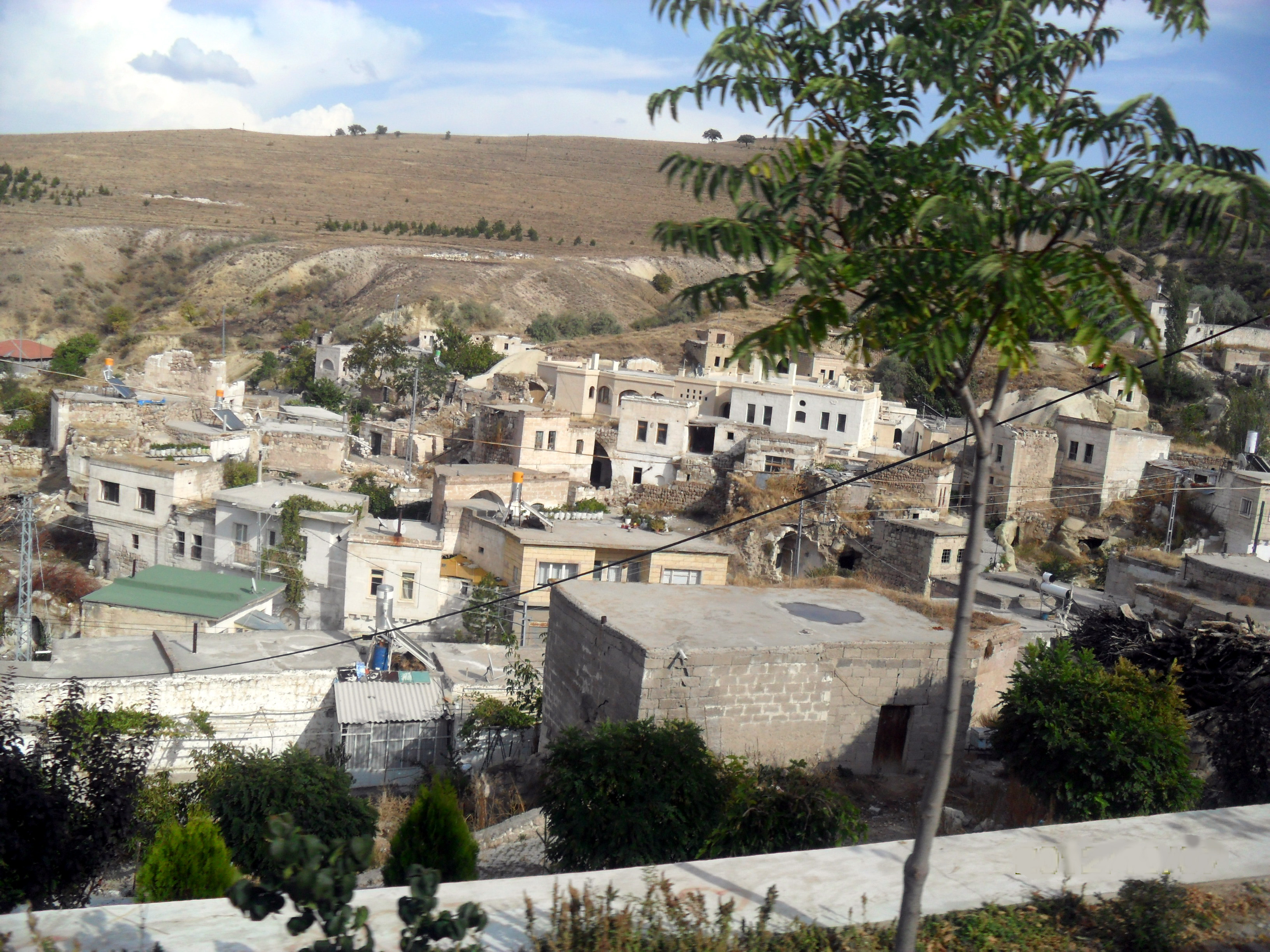 Ayvalı village in Nevşehir, Turkey